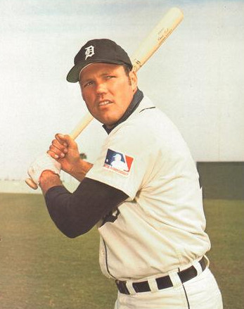 Professional baseball player Bill Freehan